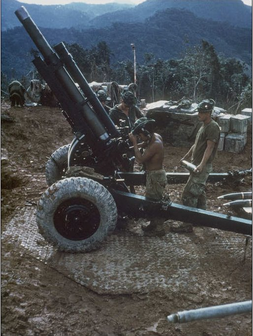 M101 105mm-howitzer, used during WW", Korea and Vietnam War